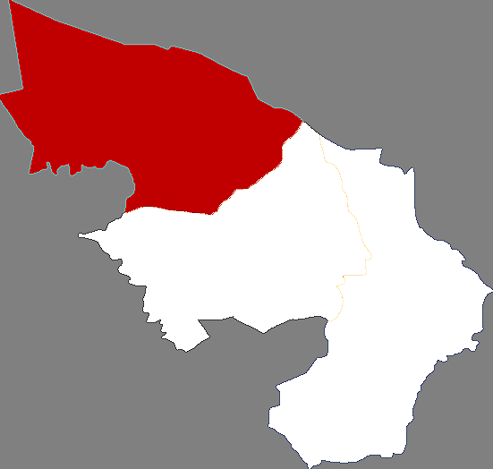 Locator map of Ejin Banner in Alxa League, Inner Mongolia, China